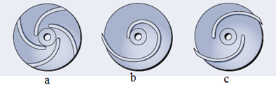 a) daugiamenčiai b) vienamenčiai c) dviejų menčių